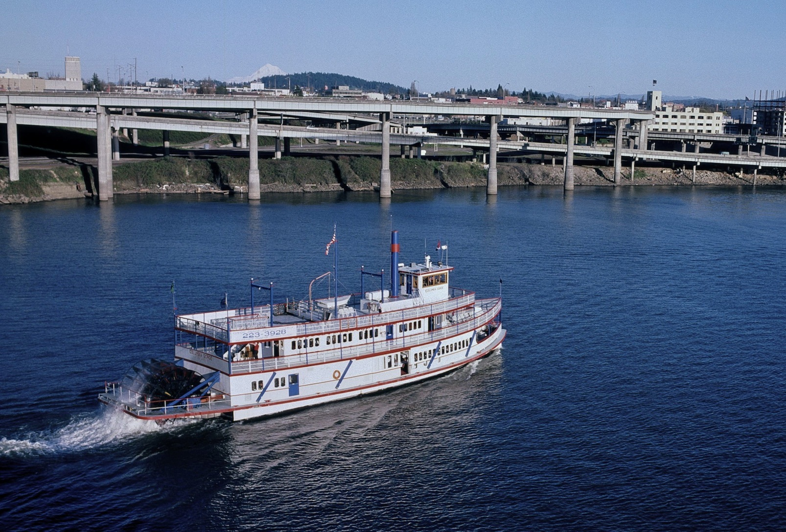 The Sternwheeler Columbia Gorge, a 1983-built replica steamboat, paddling upstream (south) on the Willamette River in Portland, Oregon. Photo taken from the Steel Bridge.